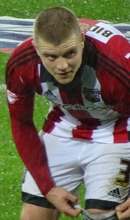 Jake Bidwell, Brentford footballer, during a match against Cardiff City.